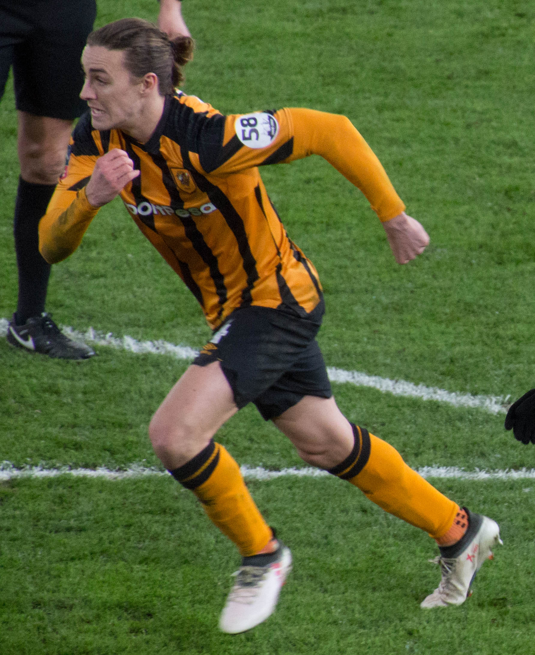 FA Cup 5th round 16.2.18